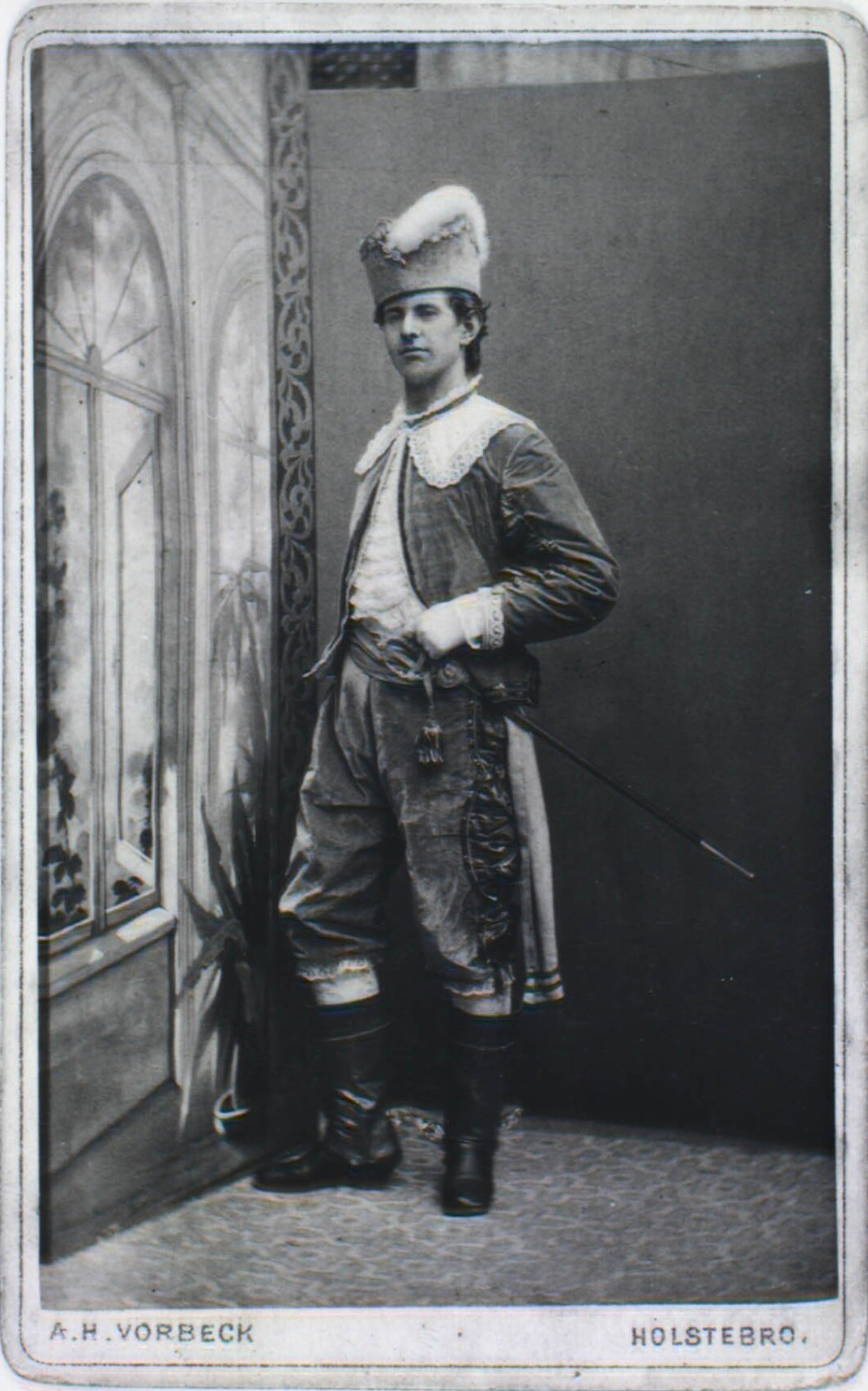 Picture of journalist Kristian Dahl (29.03.1861-18.10.1934)